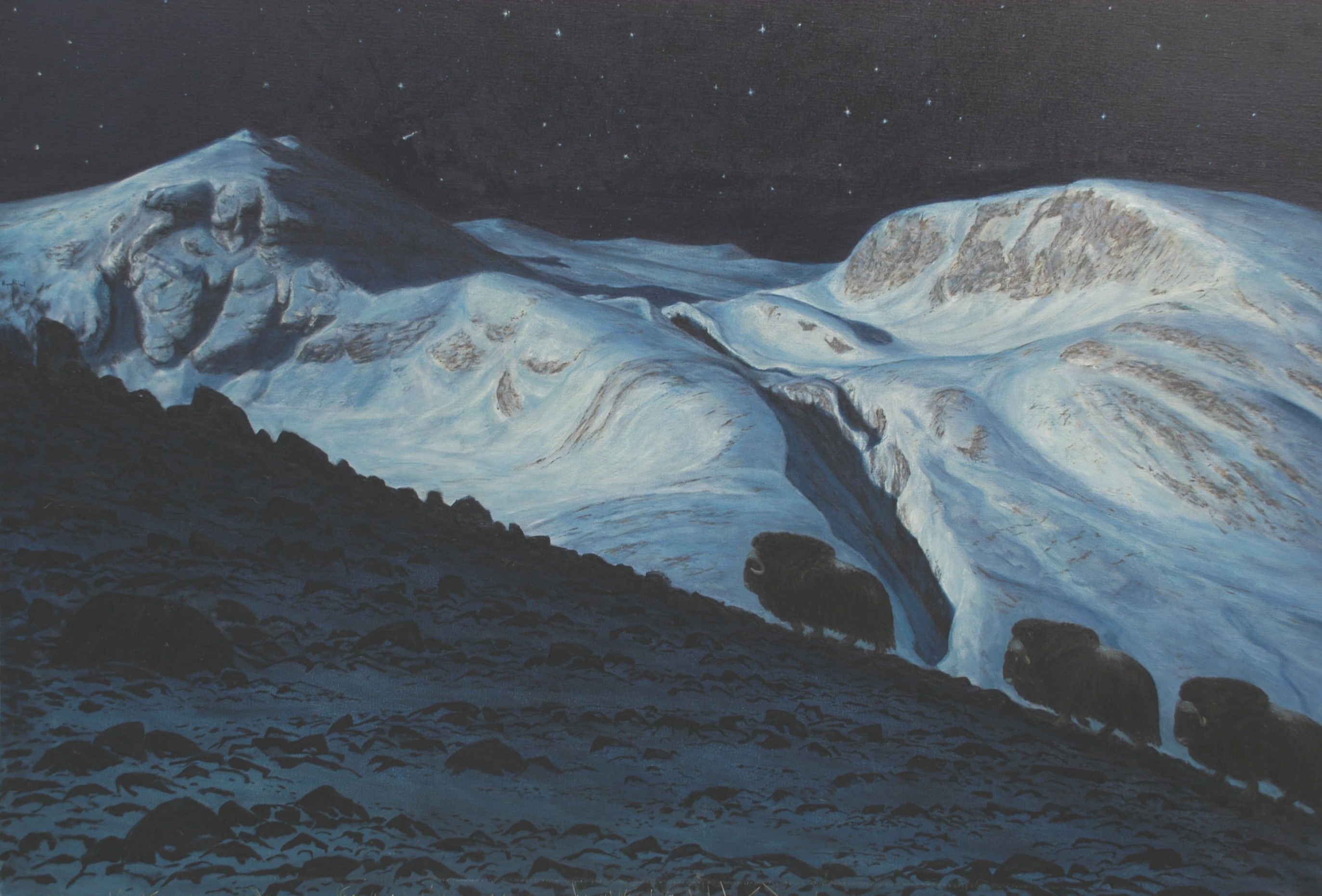 Winternight in Dovrefjell, three muskox (Ovibos moschatus)